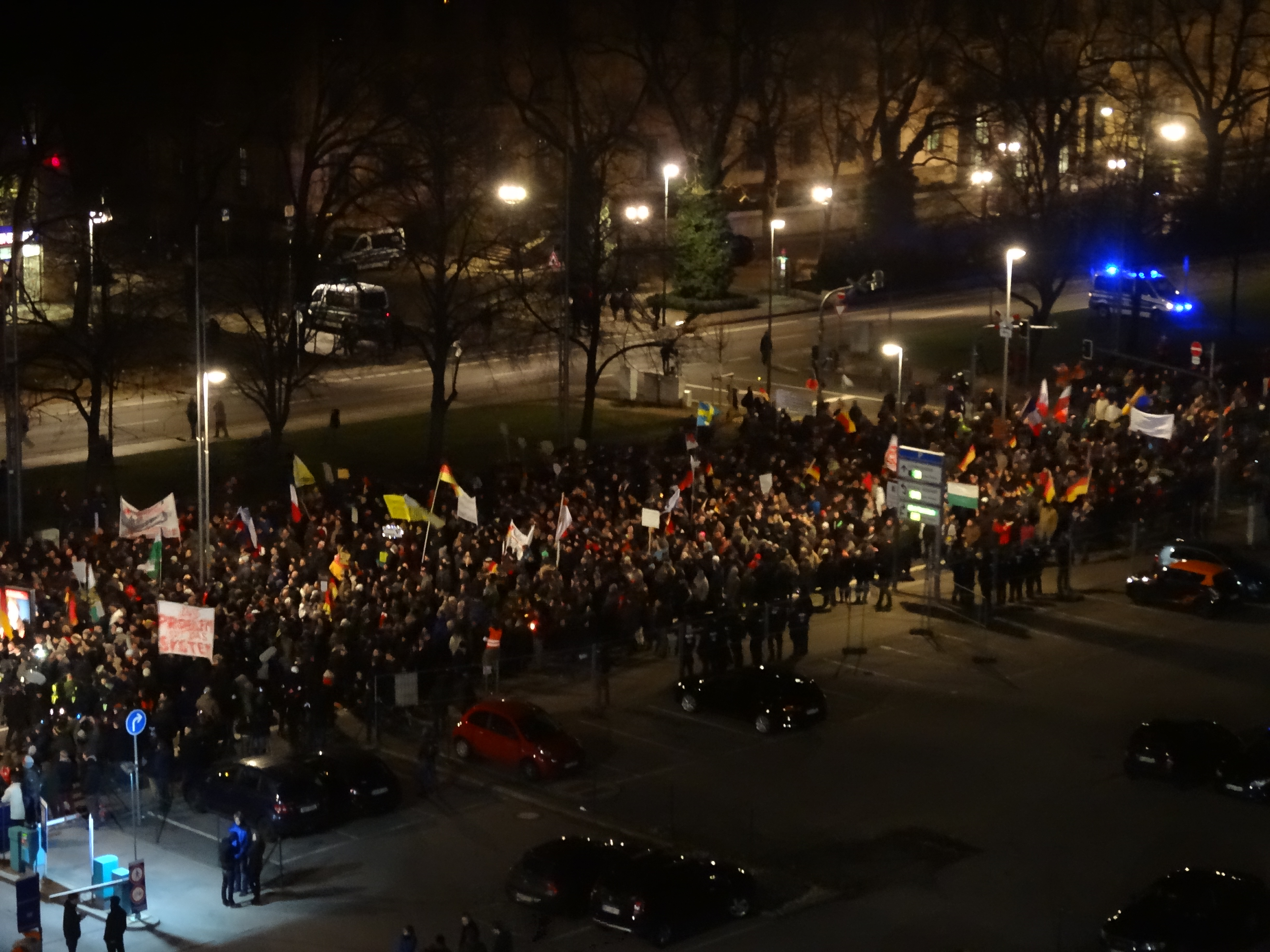 A PEGIDA demonstration in Dresden from Georgplatz - Karstadt - Altmarktgallerie - Wilsdruffer Straße - Georgplatz Dresden. 40,000 participants came to demonstrate for peaceful refugees without terrorist background. Terrorists should leave the country. 250 leftwing activists came to disturb at Karstadt Dresden and the police came.